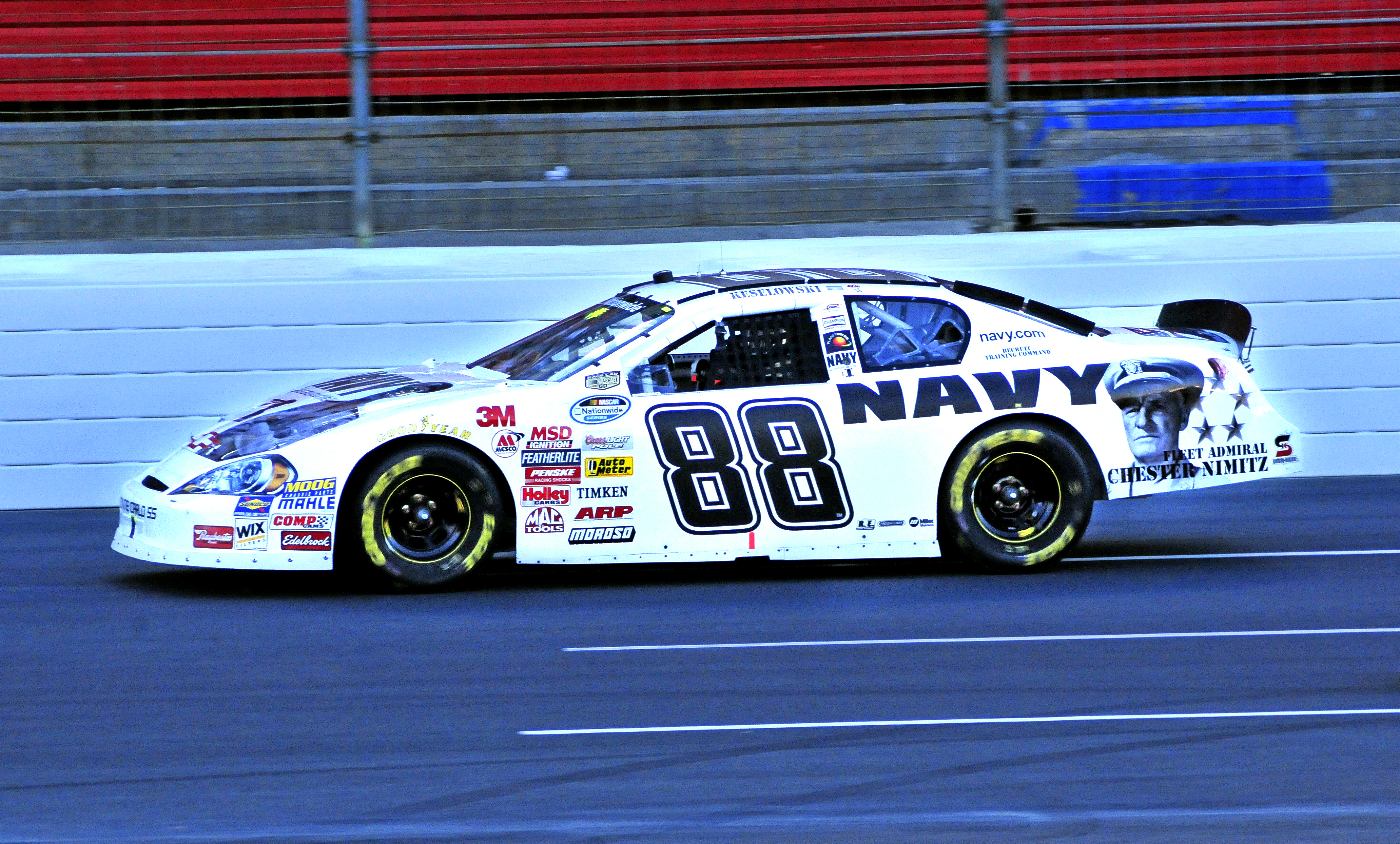 National Association of Stock Car Auto Racing driver Brad Keselowski, leads the field in the No. 88 Navy Salute the Troops Chevy, at the Lowe’s Motor Speedway, during the CarQuest 300 stock car race, held May 24, 2008, at Concord, N.C. Keselowski finished third in the race, moving him up to fifth place in the driver’s standings.